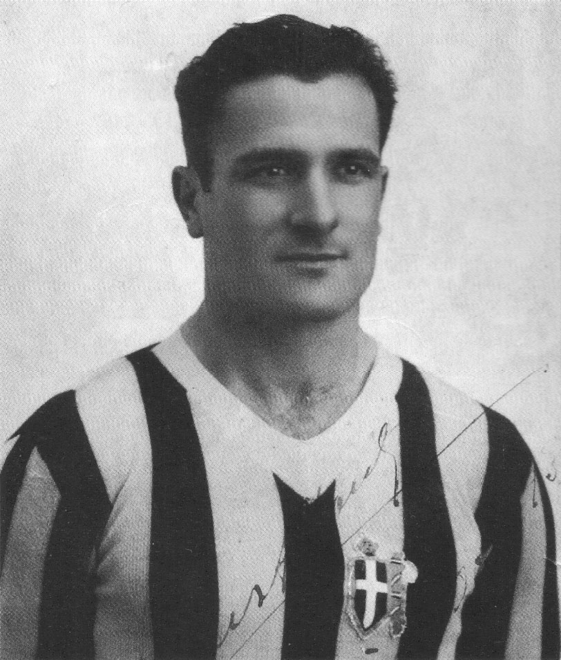 Italian-Argentine footballer Luis Felipe Monti with F.B.C. Juventus in the 1st half of 1930s.